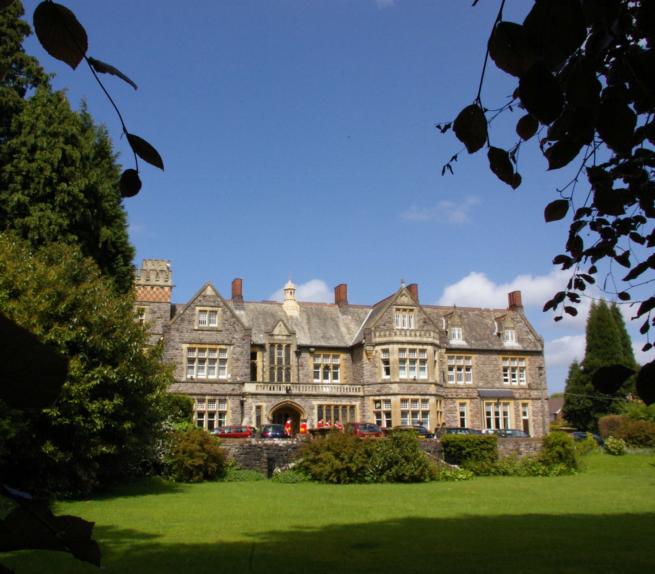 St John's College, Cardiff main school building. Originally Ty-To-Maen Manor built for Richard Allen in 1886 and subsequently purchased by Sir William Nicholls.